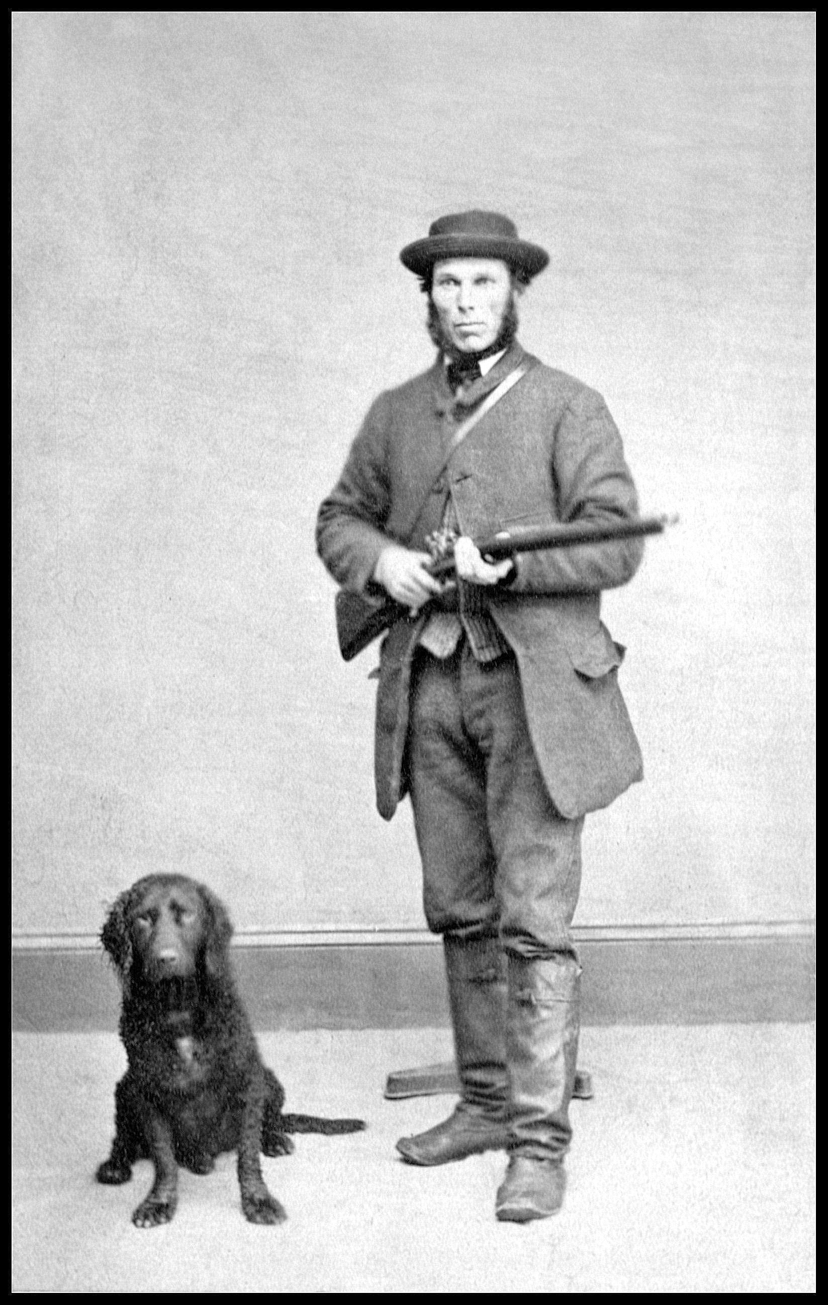 William Pittman Lett , First Clerk, City of Ottawa, Ontario Canada, with Shot Gun and Hound , ca 1865